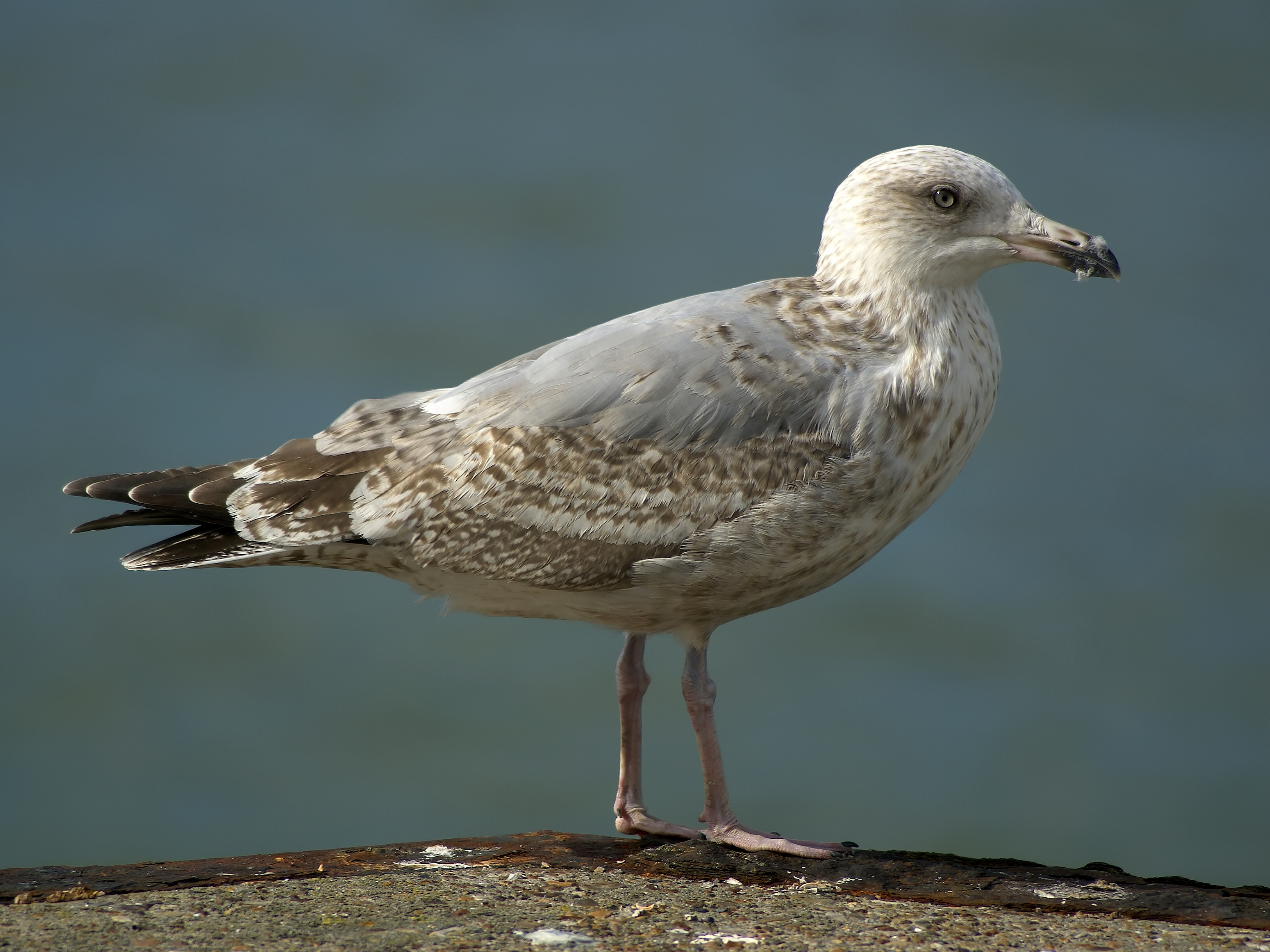 second winter juvenile, at the military port of Zeebrugge, Belgium